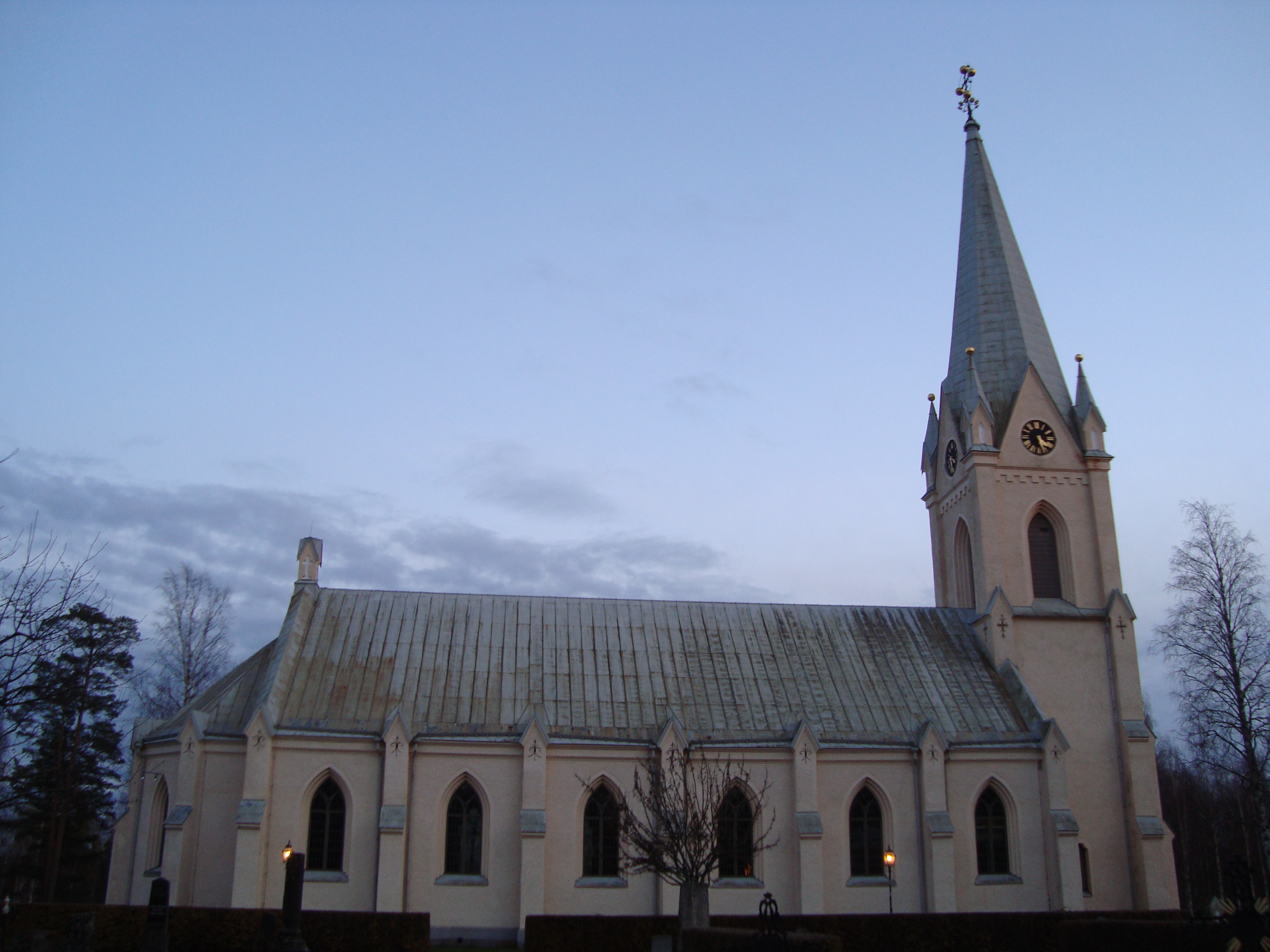 Church of Stjärnsund